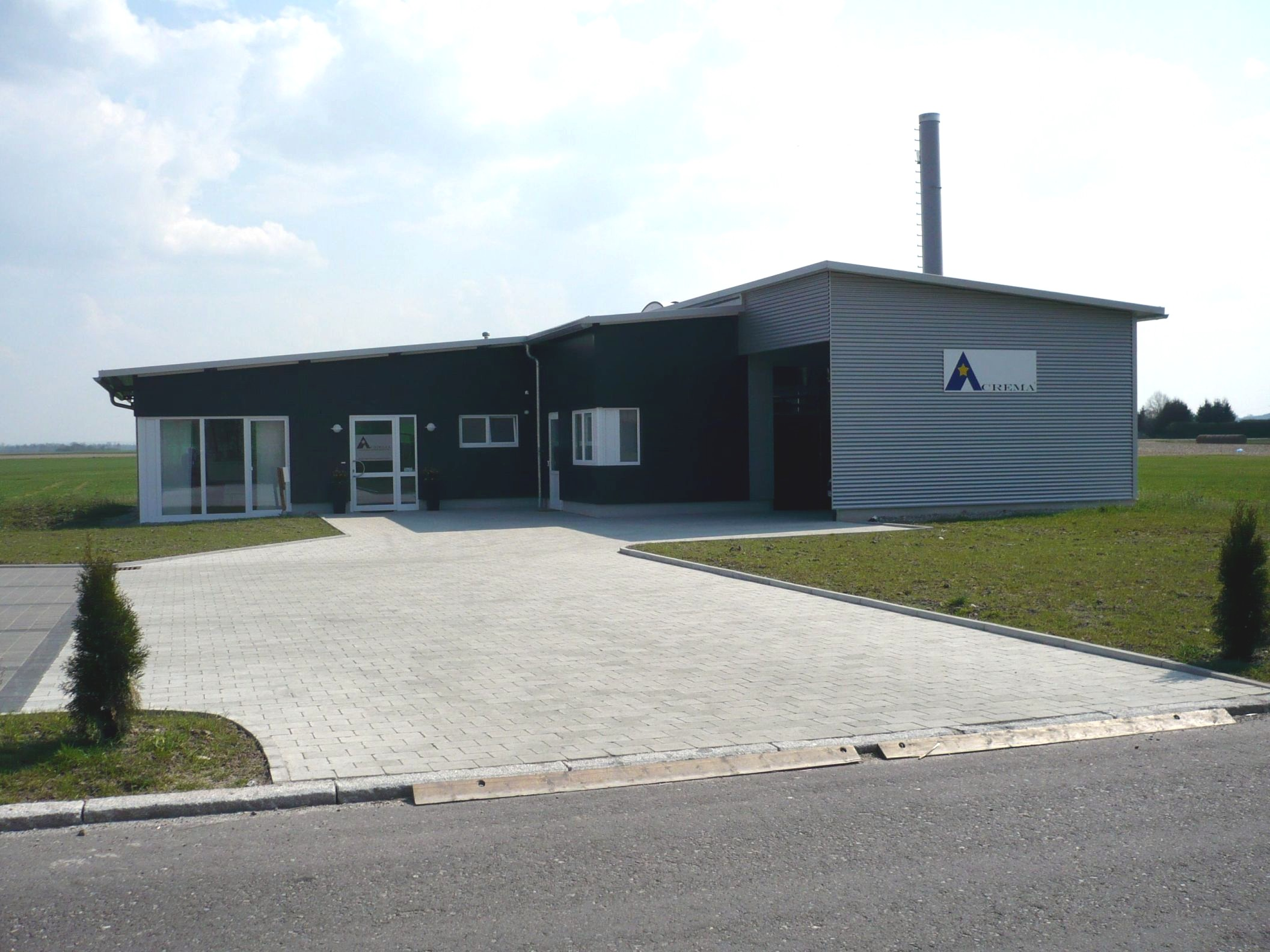 Outside picture of a typical animal crematory. This one is the ACREMA Tierkrematorium and it is located in Erolzheim, southern Germany.